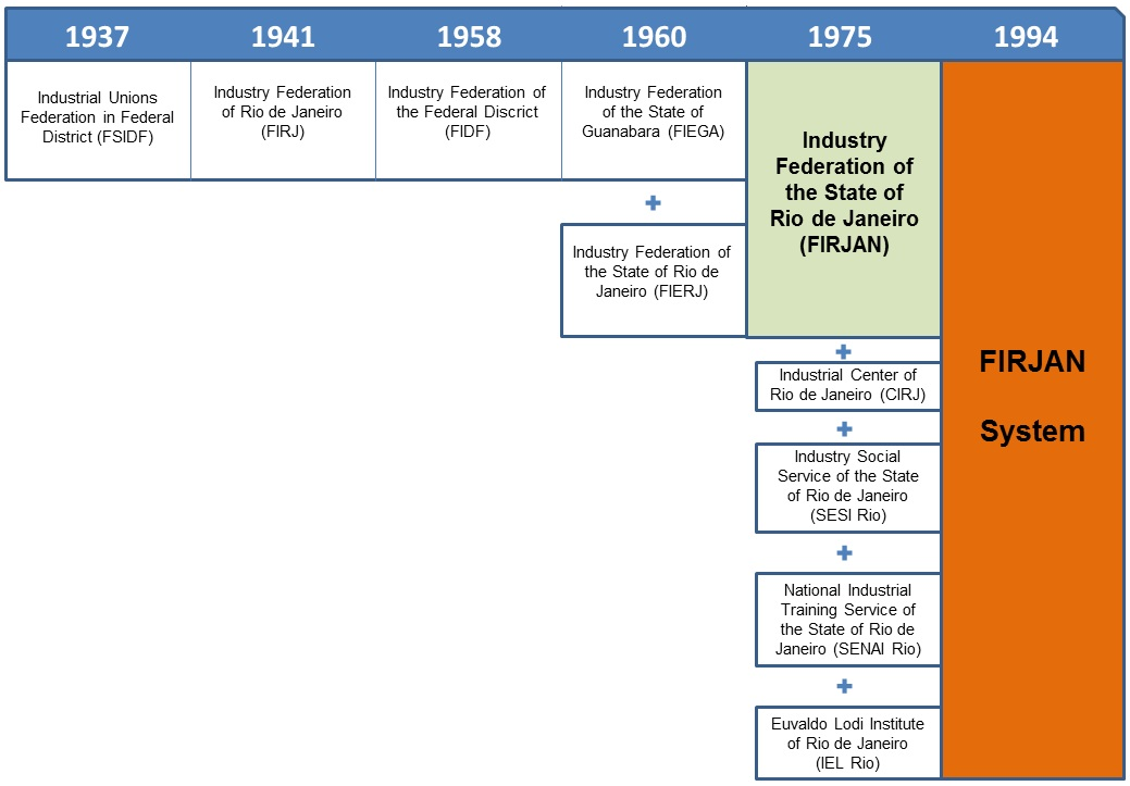 This is the chronology of the Industry Federation of the State of Rio de Janeiro (FIRJAN) creation.